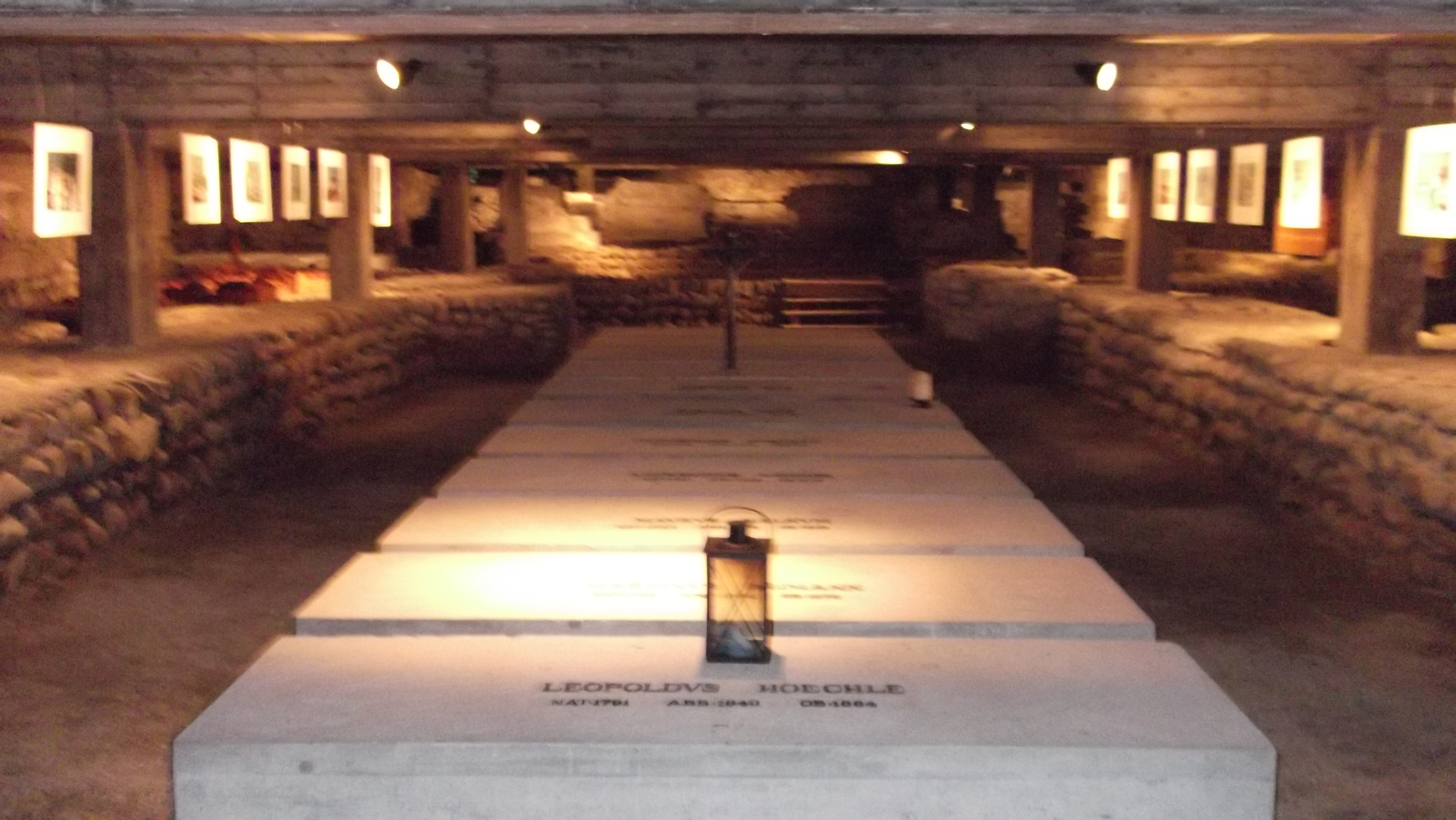 Crypt of abbey Wettingen-Mehrerau in Bregenz, Austria